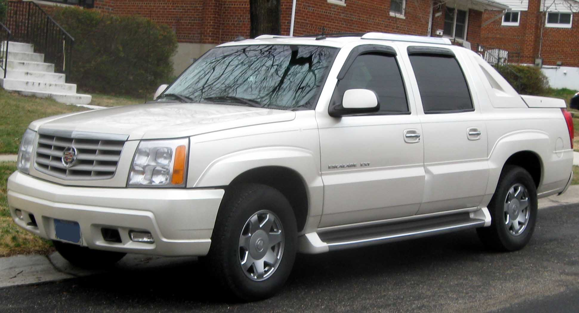 2003-2006 Cadillac Escalade EXT photographed in Rockville, Maryland, USA.